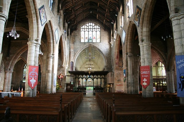 St.Mary & St.Nicolas' nave Looking east in the lofty 13th century Early English nave